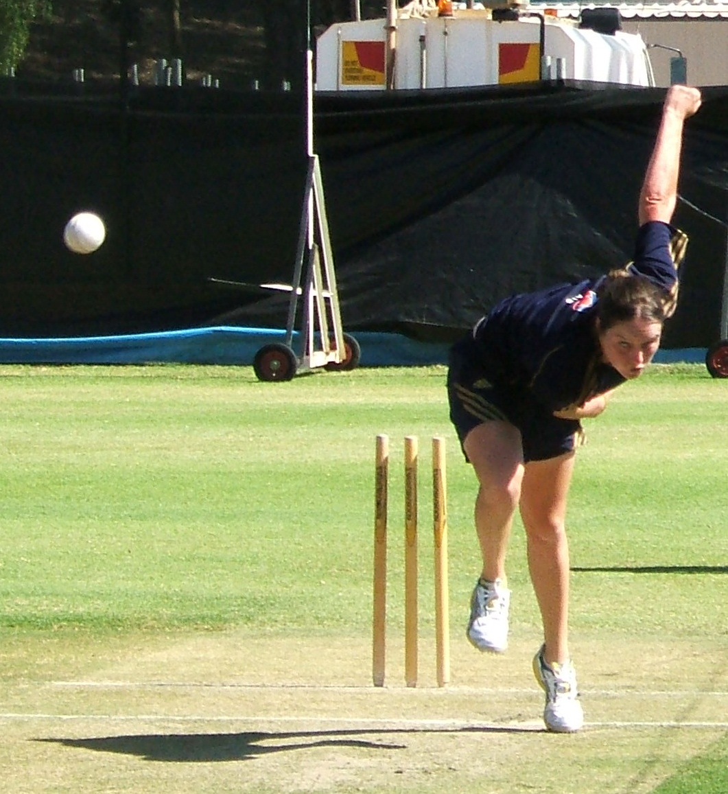 Named person engaging in named action at Adelaide Oval nets/training ground